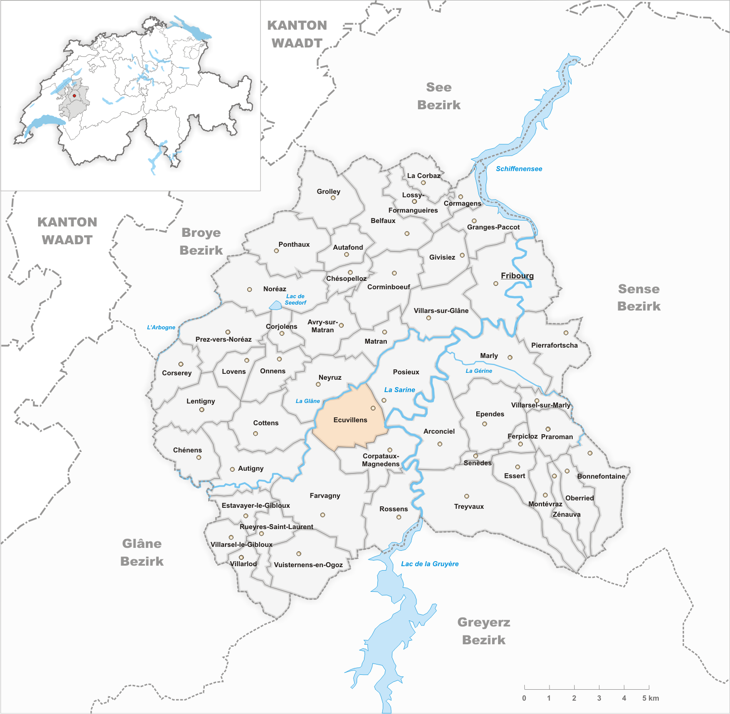 Municipality Ecuvillens Artist: Tschubby